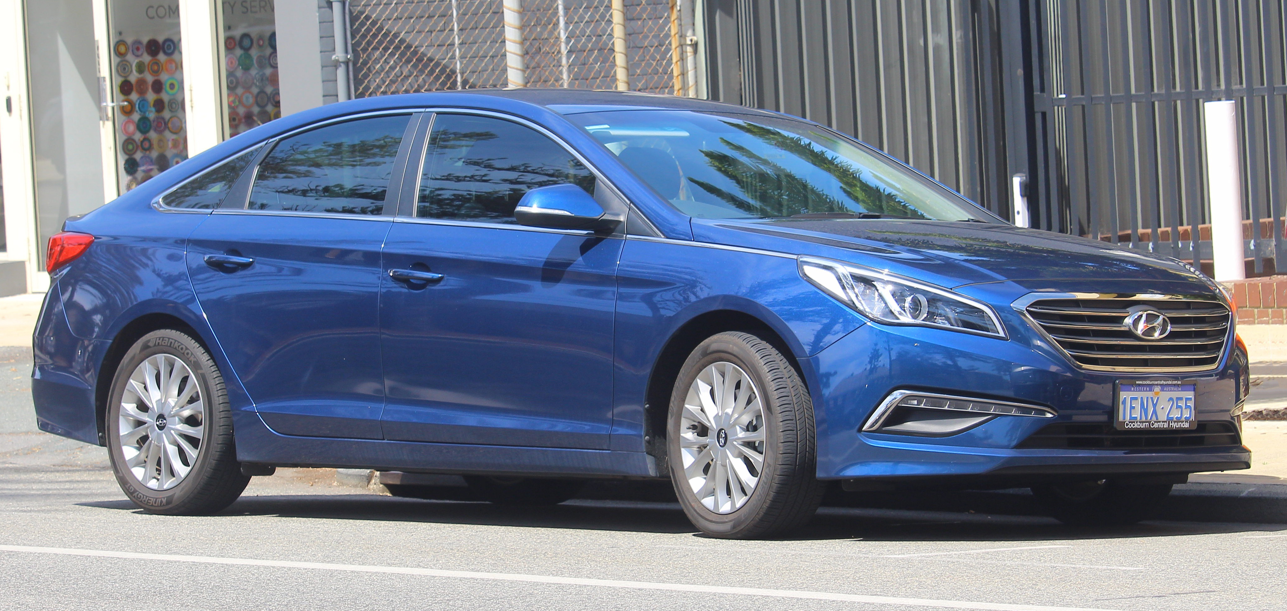 2014 Hyundai Sonata (LF MY14) Active sedan. Photographed in Fremantle, Western Australia, Australia.